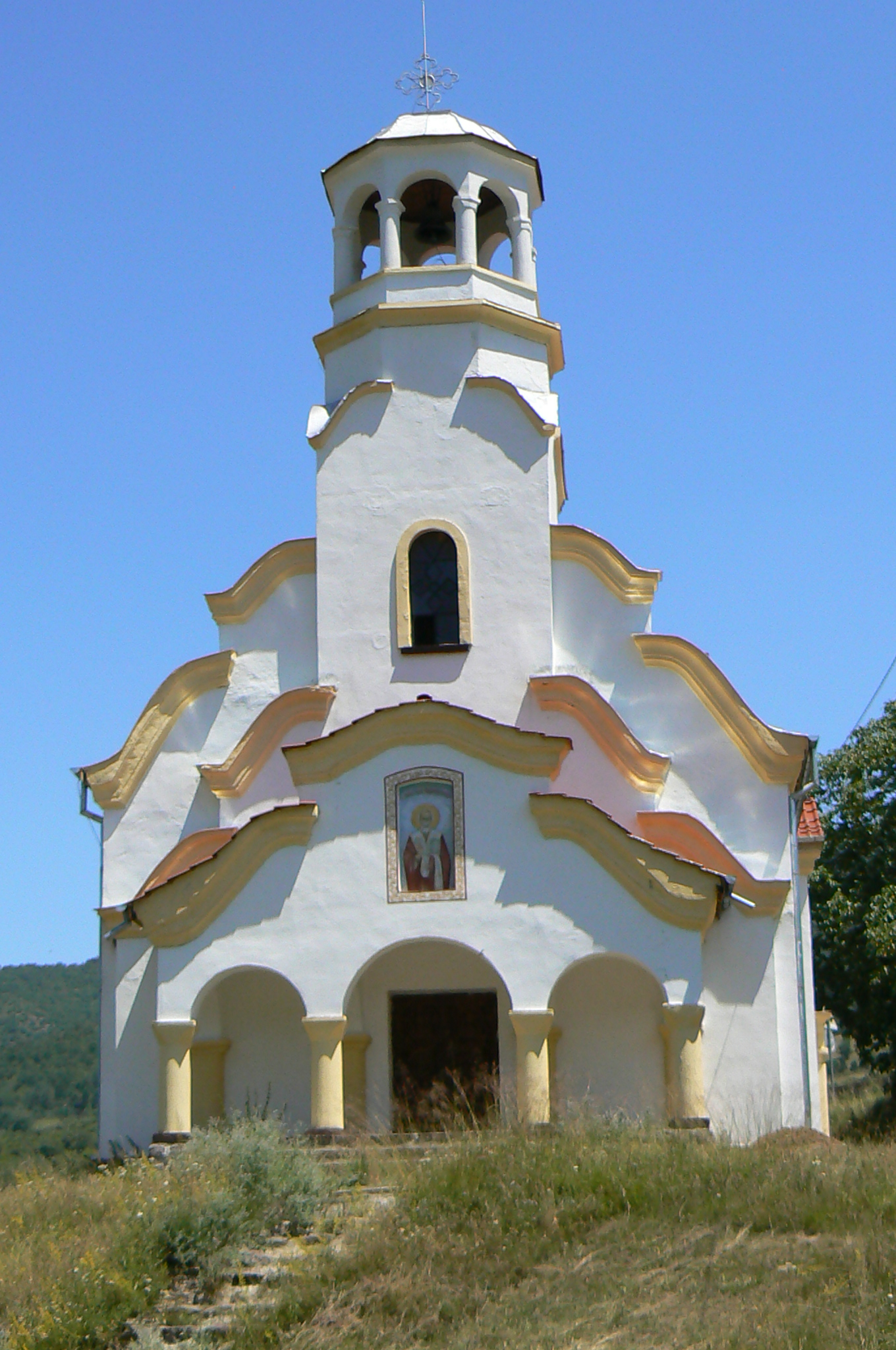 Church "Saint Nikolay Mirlikiyski" in village Zhelezna, Bulgaria